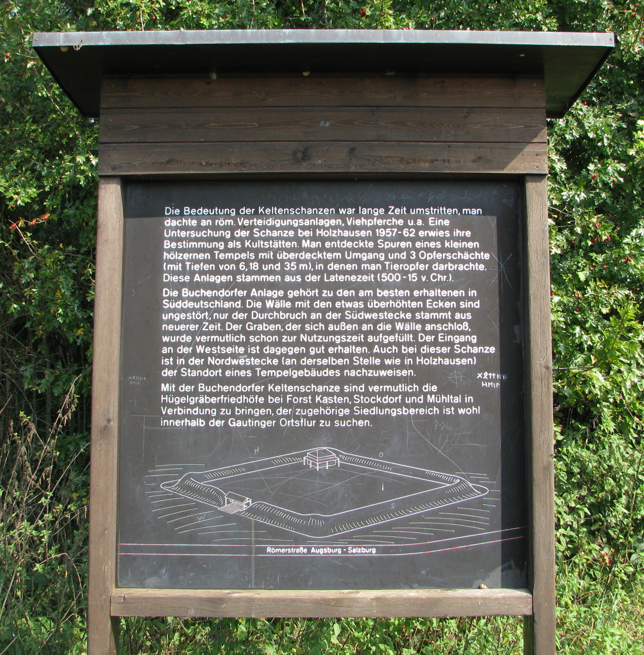 Viereckschanze Buchendorf – A Celtic viereckschanze (or nemeton) near to the small German village Buchendorf. This is the information about the history.